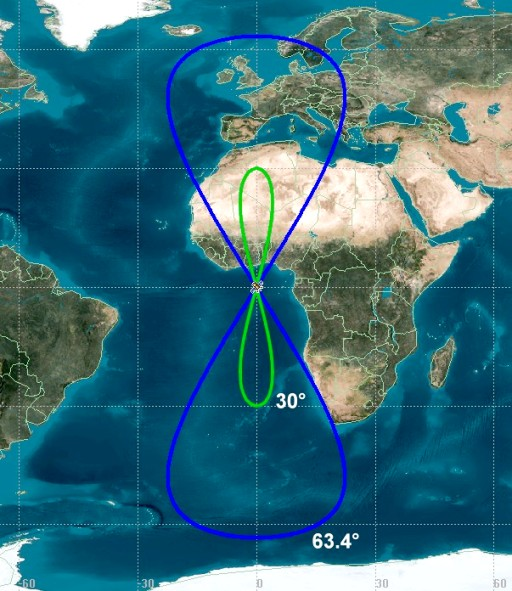 Inclined Geosynchronous Orbit (IGSO). Inclination: 30° + 63°; exccentricity: 0.0